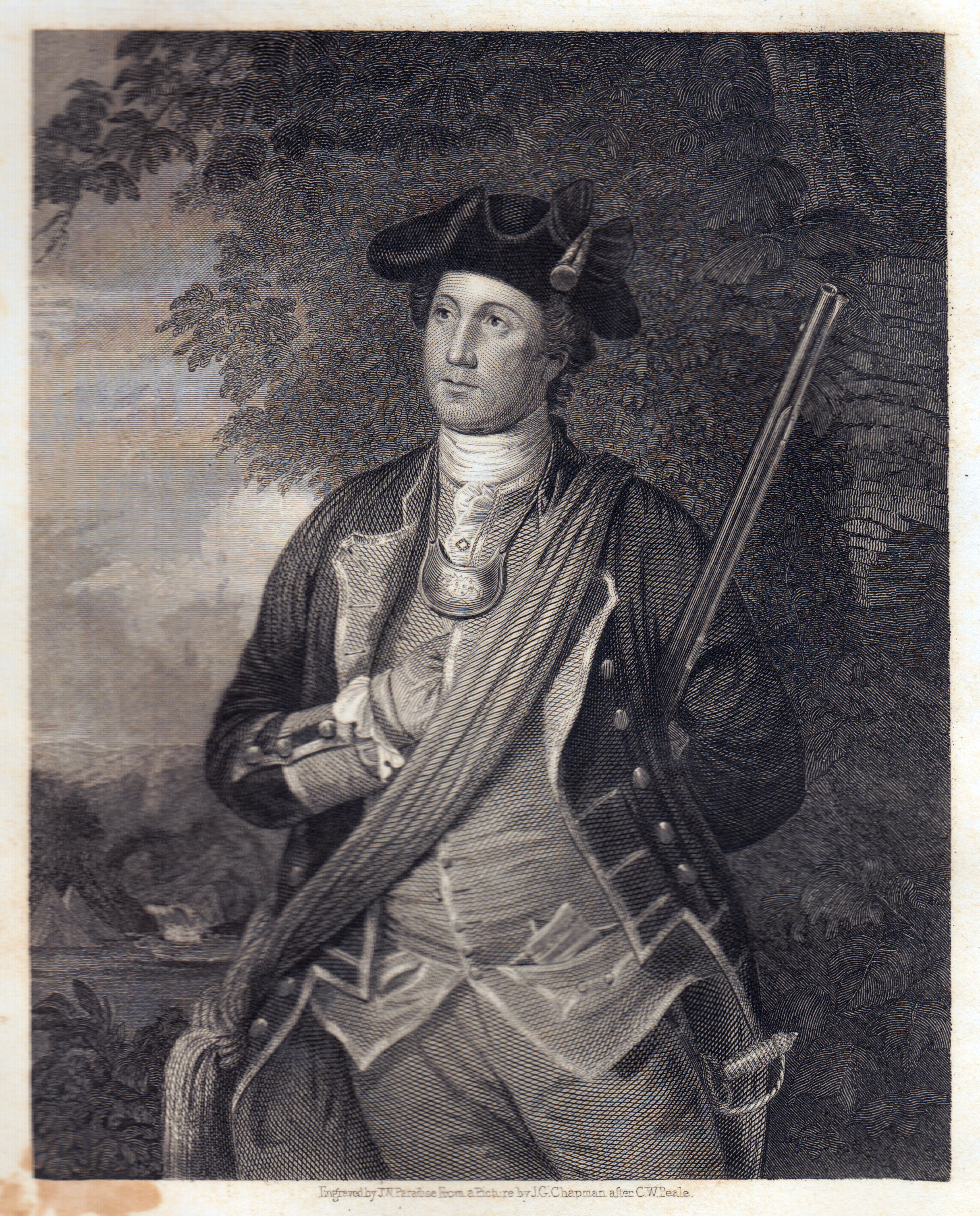 George Washington in 1772 at age 40 (Steel engraving)